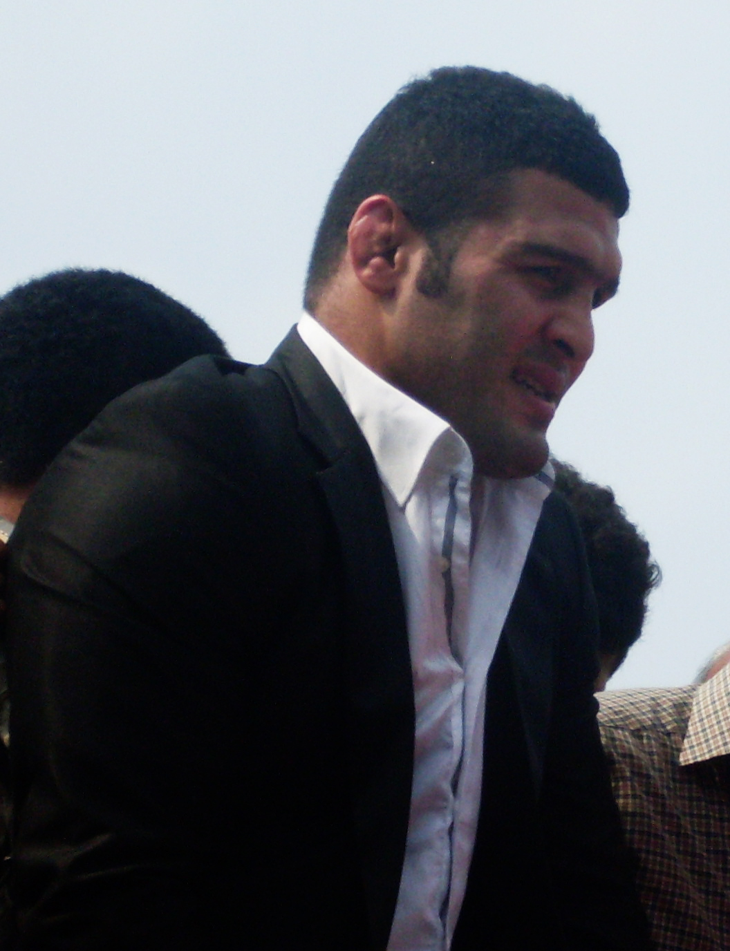 Reza Yazdani Iranian wrestler in juybar, mazandaran.